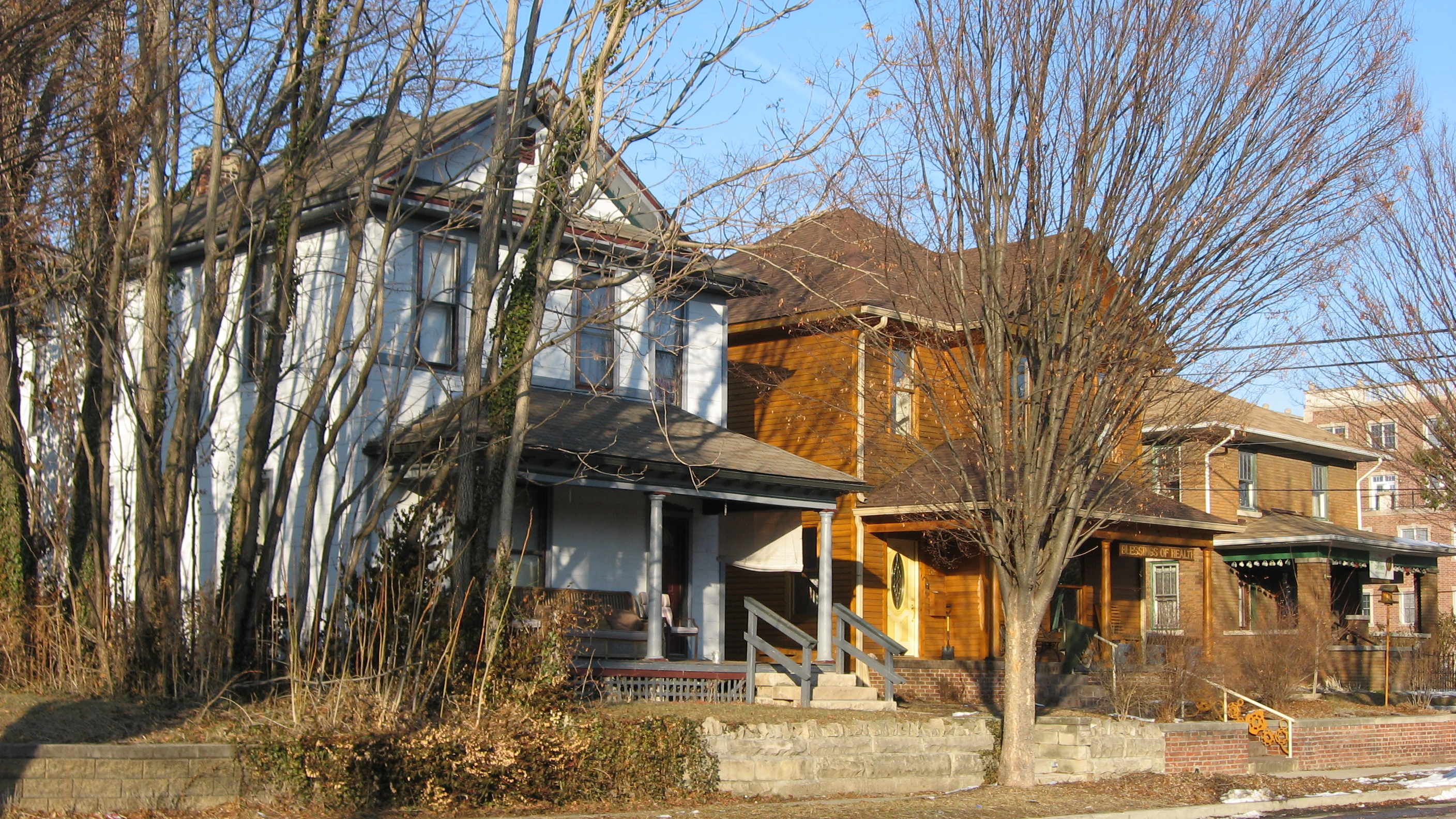 Houses on the northern side of the 400 block of W. Fourth Street in Bloomington, Indiana, United States. From right to left, they are: 410 W. Fourth: American craftsman style, built 1927 412 W. Fourth: Queen Anne style, built 1905 416 W. Fourth: Queen Anne style, built 1905 These houses are part of the Bloomington West Side Historic District, a historic district that is listed on the National Register of Historic Places.